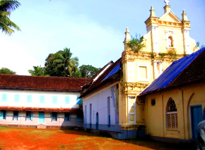 Mar Hormizd Syro-Malabar Church (Angamaly Cathedral), built by Mar Abraham Metropolitan.